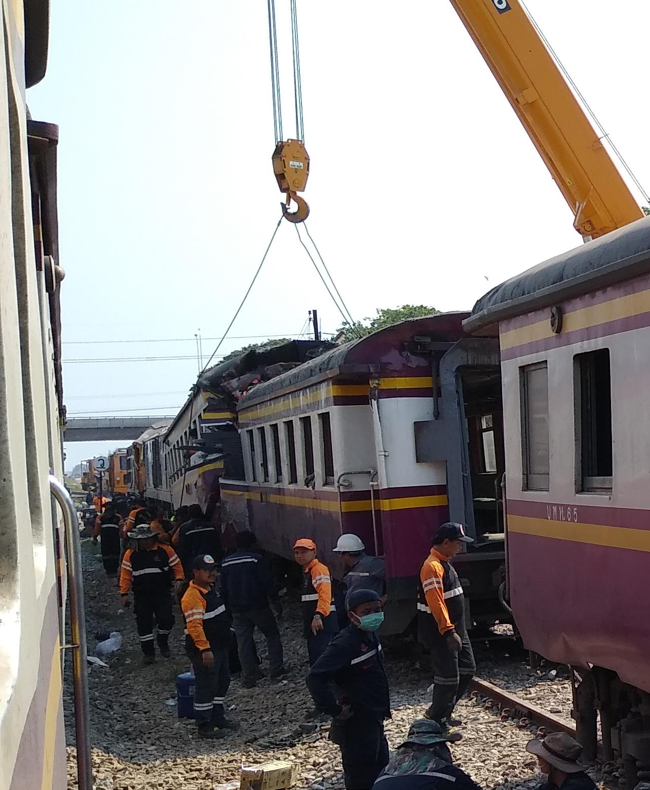 Wreckage being cleared at Pak Tho station, Thailand, on February 26, 2020. Two days after a head-on collision took place after the station.